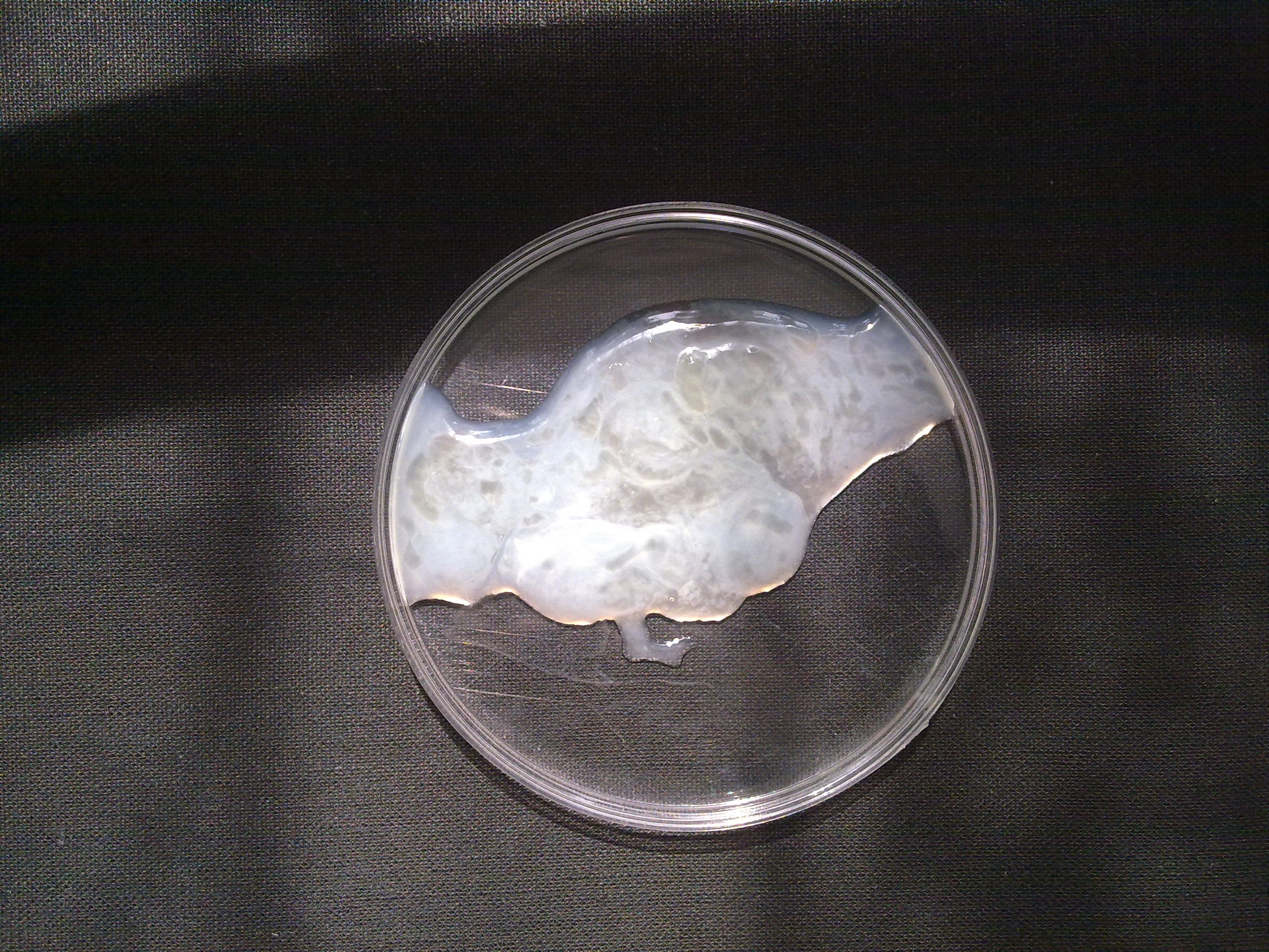 Human semen in a petri dish